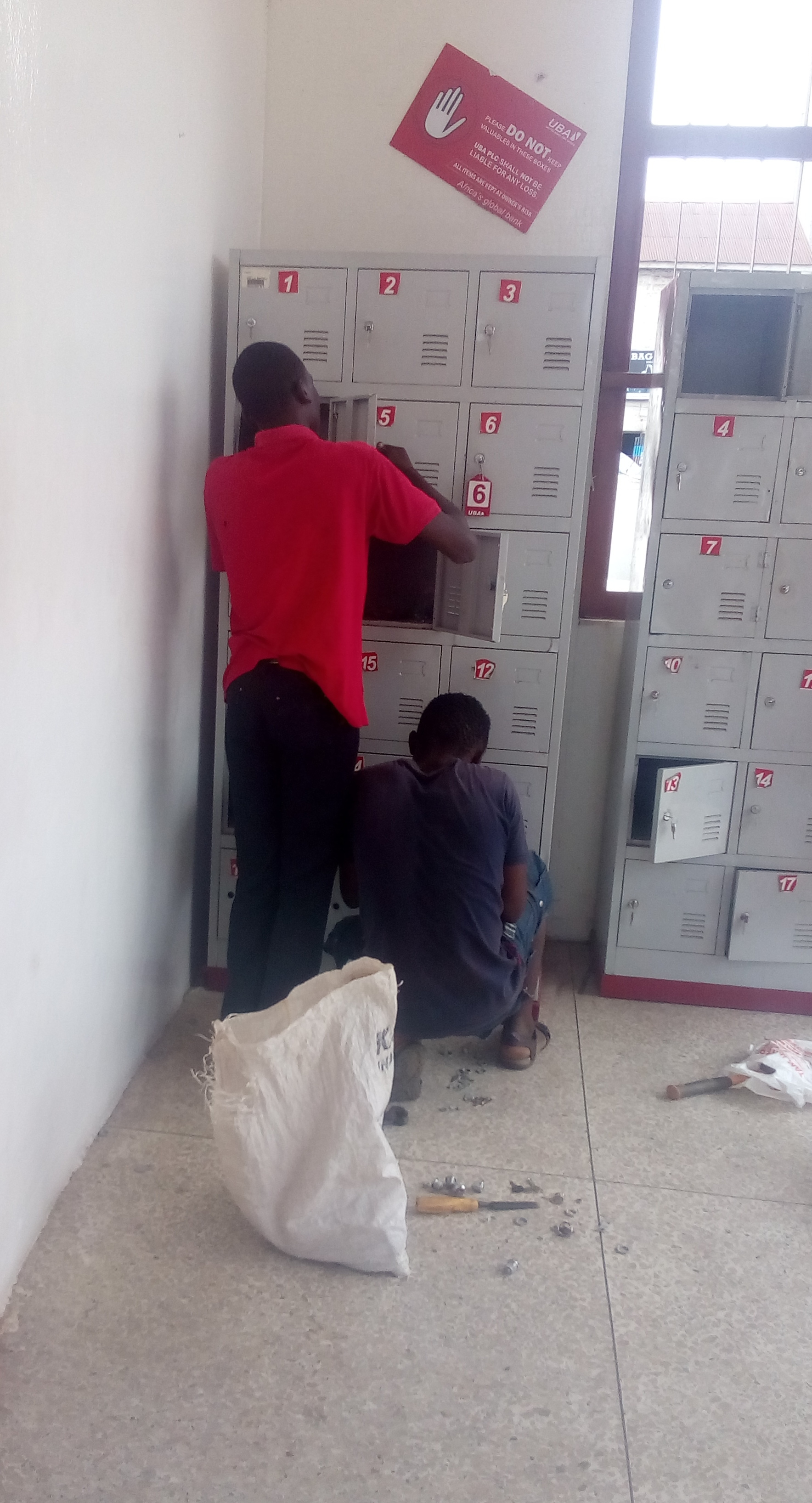 Lock Smith fixing various locks This is an image of "African people at work" from Nigeria